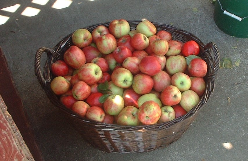 Basket of fresh picked Gravenstein apples, British Columbia, Canada